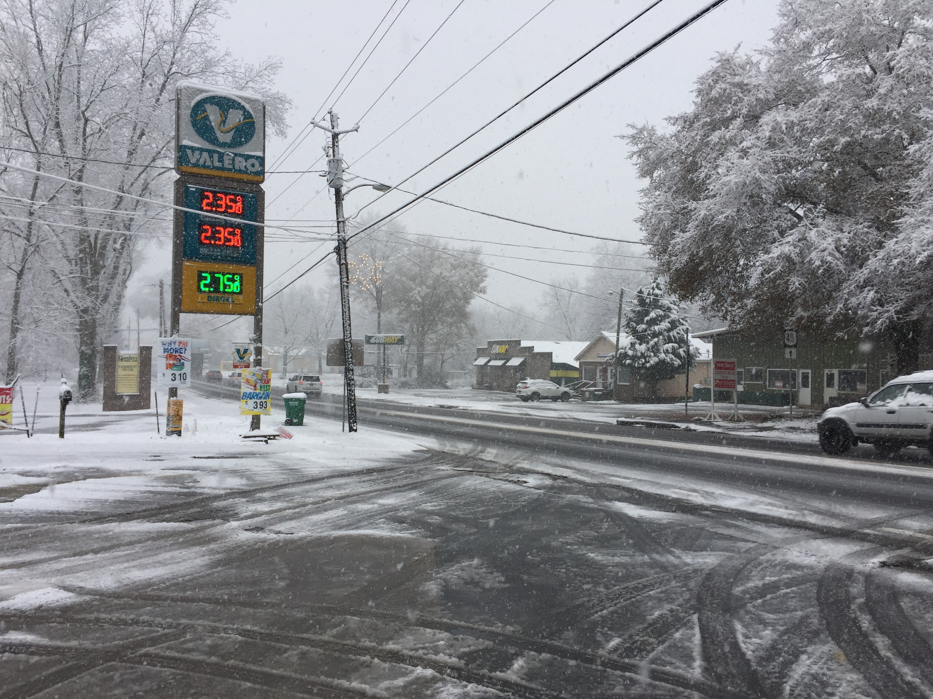 Snow in Fairmount, GA